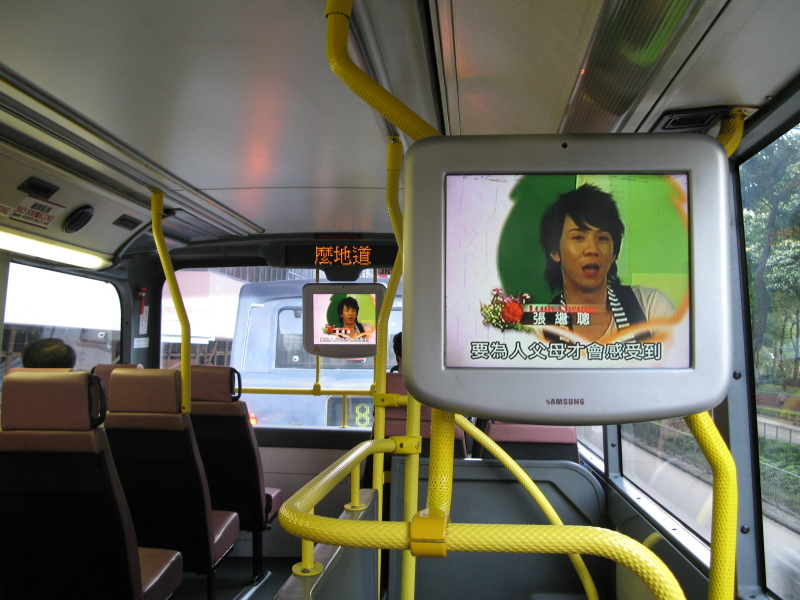 Samsung display of Roadshow in KMB